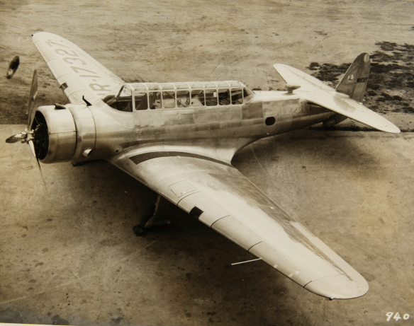 Catalog #: 00072761 Manufacturer: Vultee Designation: V-11GB